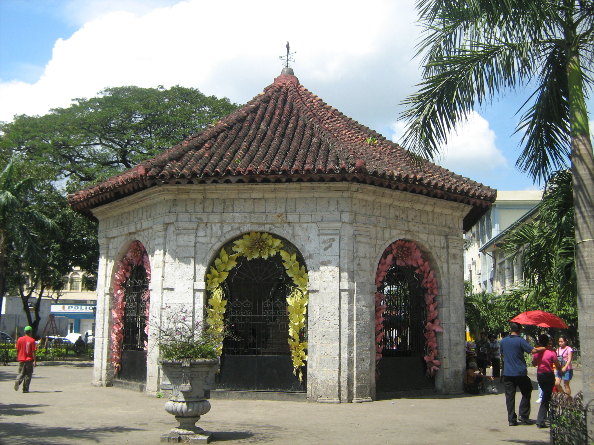 Magellan's Cross kiosk in Cebu City, Cebu, Philippines